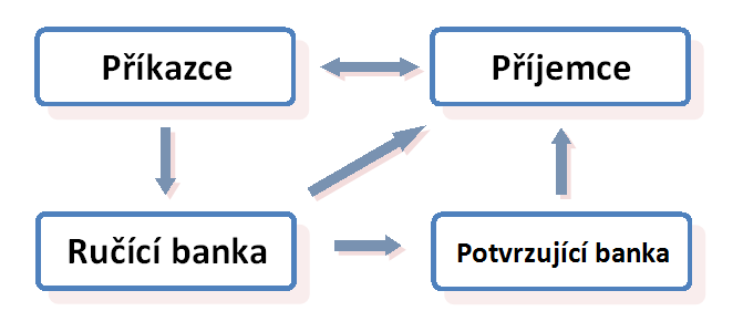 Bank surety - extended relationships